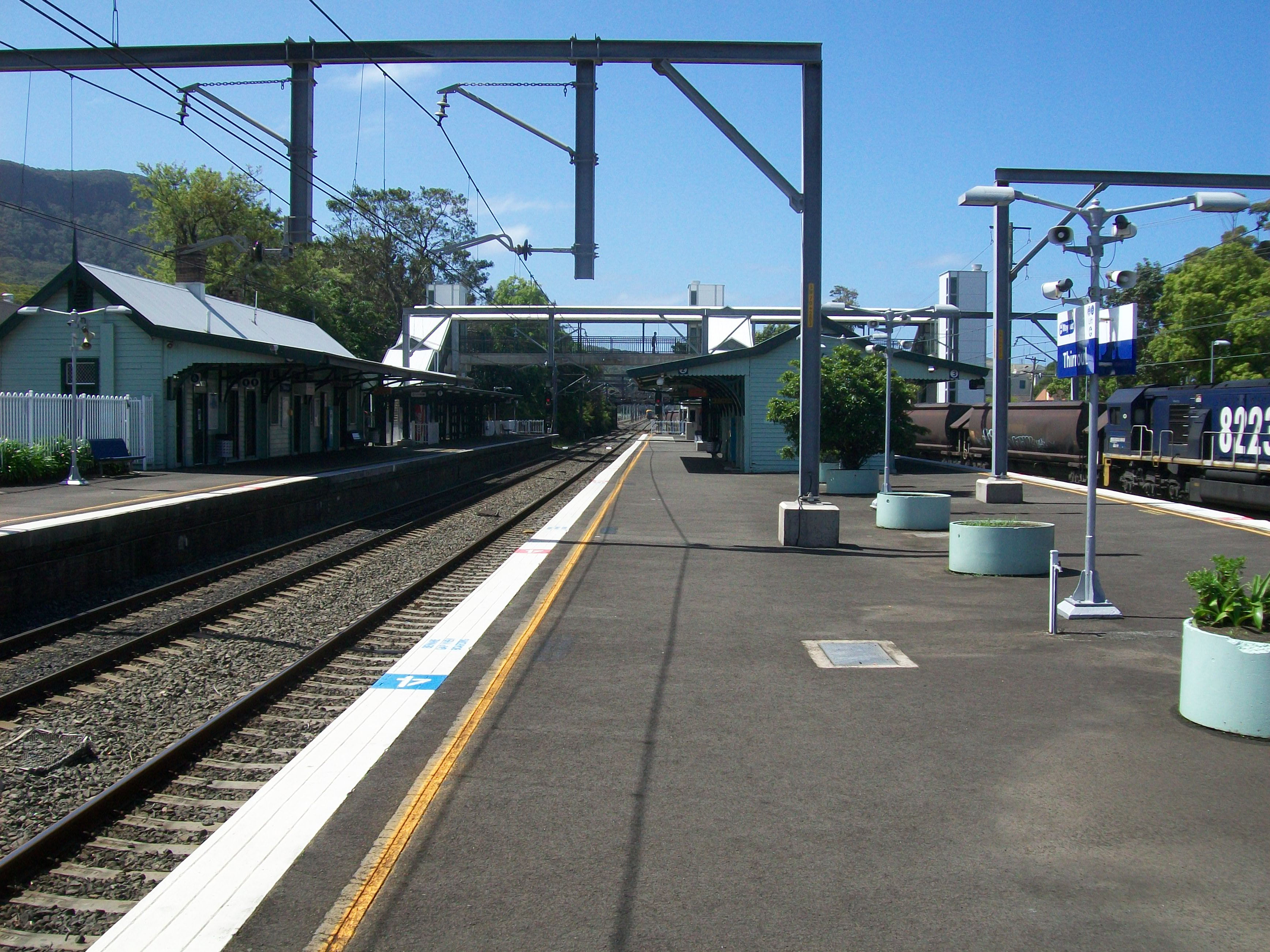 Thirroul railway station